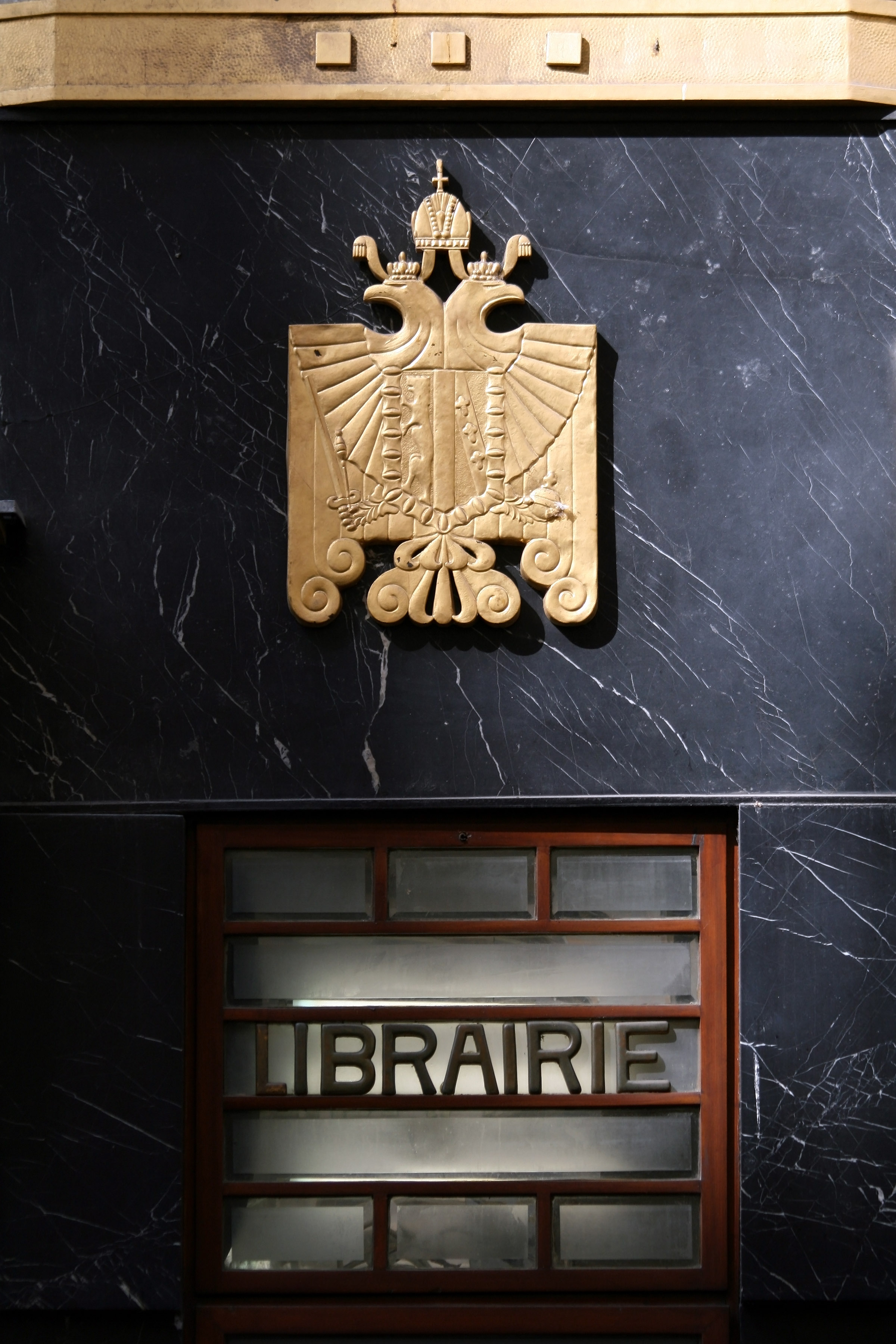 Adolf Loos' portal of the Manz'sche Verlags- und Universitätsbuchhandlung in Vienna, Austria.